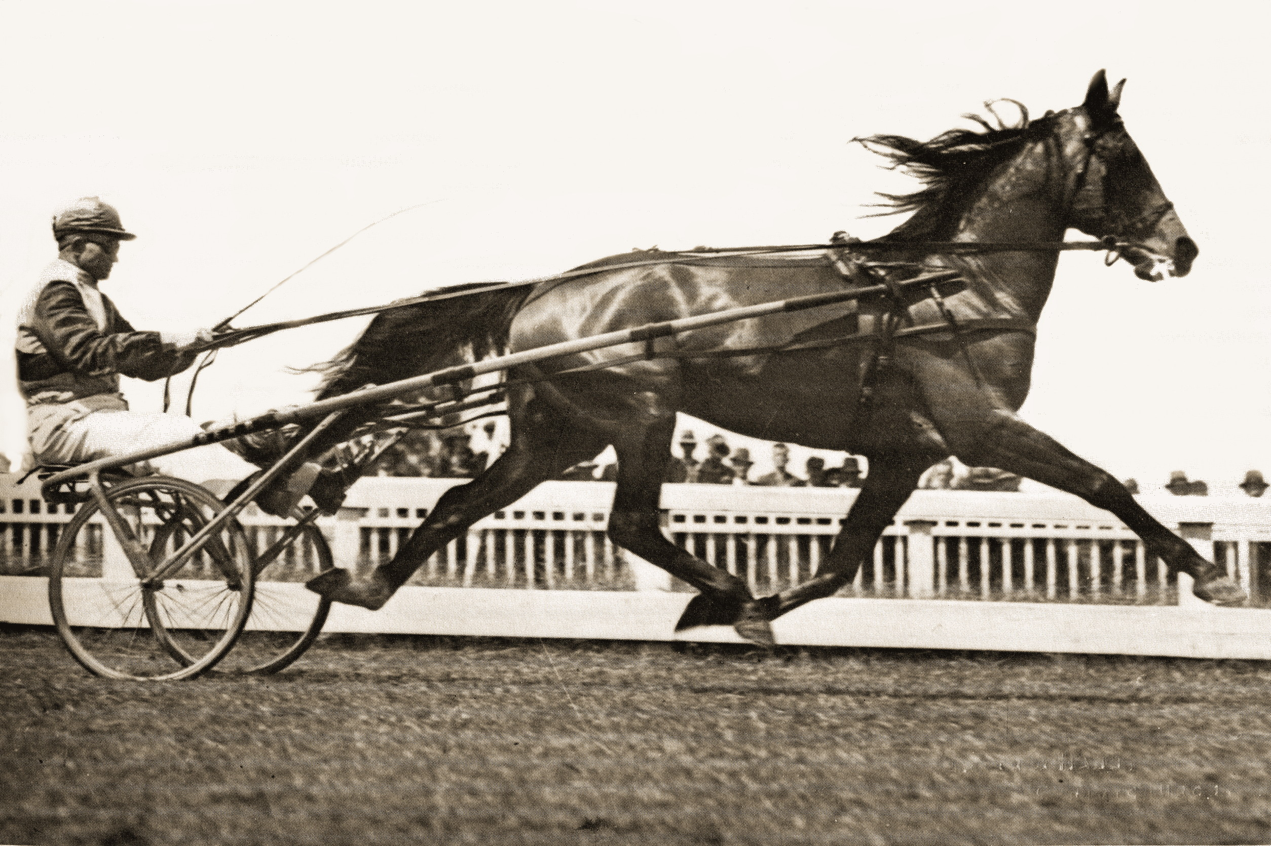 Lawn Derby (AUS), a Standardbred horse (1930) by Robert Derby from Roselawn by Childewood. Unhoppled, this New South Wales pacer was the first pacer to break the two-minute barrier in Australia or New Zealand. He achieved this feat in 1938 at the Addington track in New Zealand when he recorded 1:59.4.